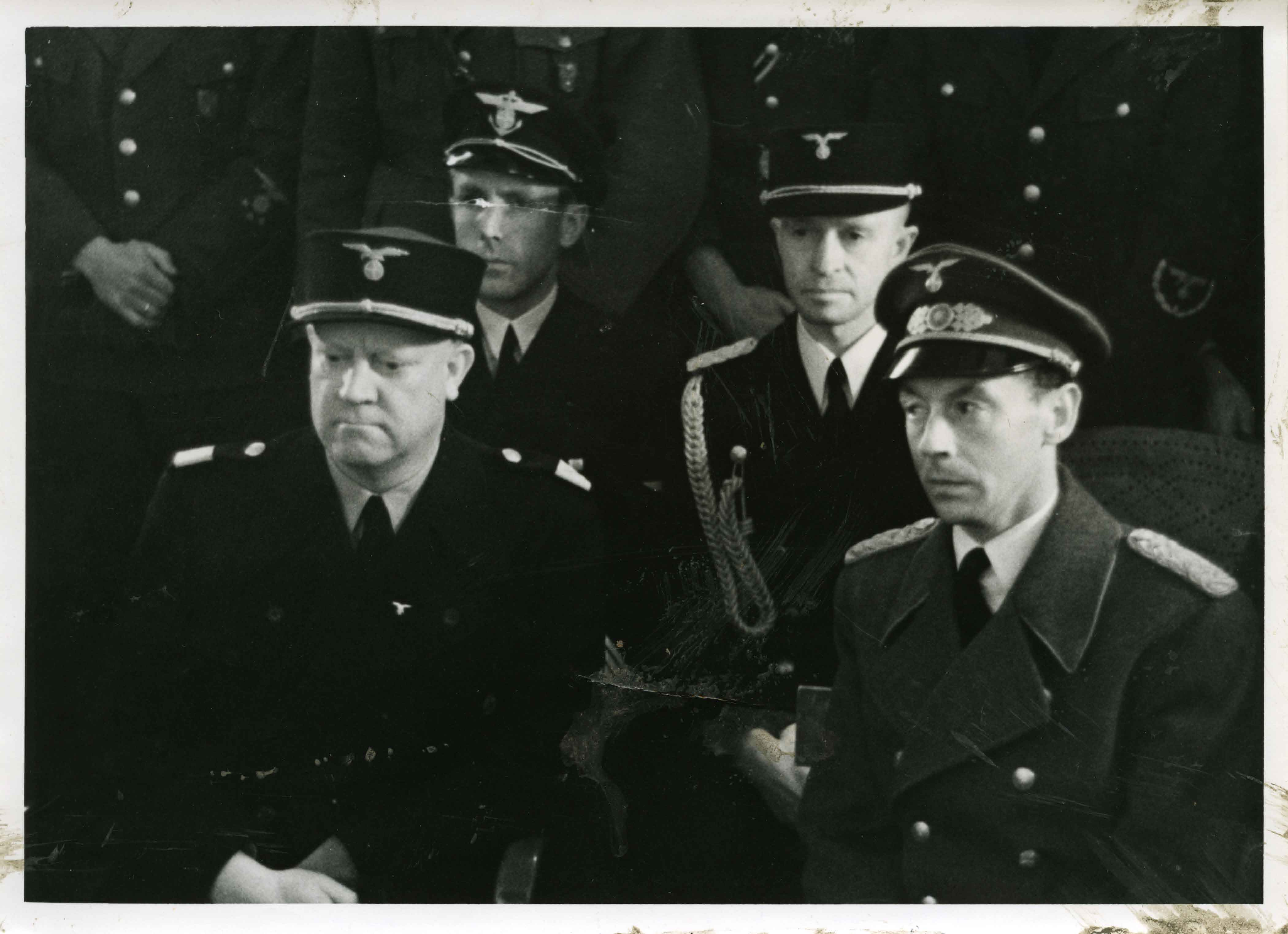 Det 8. riksmøte fant sted 25.-27.9.1942, fotograf: Volgger. RA/PA-0781/Fa/0001/0023 1149 NS holdt til sammen 7 partilandsmøter i 30-årene, men i løpet av perioden 1940-1945 ble det holdt bare ett riksmøte, 8. riksmøte i Oslo 26.-27.09.1942. Anslagsvis 10 000 deltagere fra hele landet samlet seg i hovedstaden til dette partimøtet. Det rikholdige programmet omfattet blant annet store parader der både arbeidstjeneste, kvinner, SS, NSUF, ung- og småhird defilerte, og i Frognerparken ble det holdt en stor minnemarkering for de falne. Avslutningsarrangementet fant sted på Bislet stadion. NS (the Norwegian Fascist party) held a total of seven party congresses in the 30s, but during the period 1940-1945 there was just one national meeting, the 8th national meeting in Oslo on September 26th and 27th 1942. An estimated 10,000 participants from across the country gathered in the capital for this party meeting. The extensive program included the major parades in which both labor service, women, SS, NSUF, and young party members paraded. There was a large memorial ceremony for the fallen in the Vigeland Park. The closing ceremony took place at Bislett Stadium.